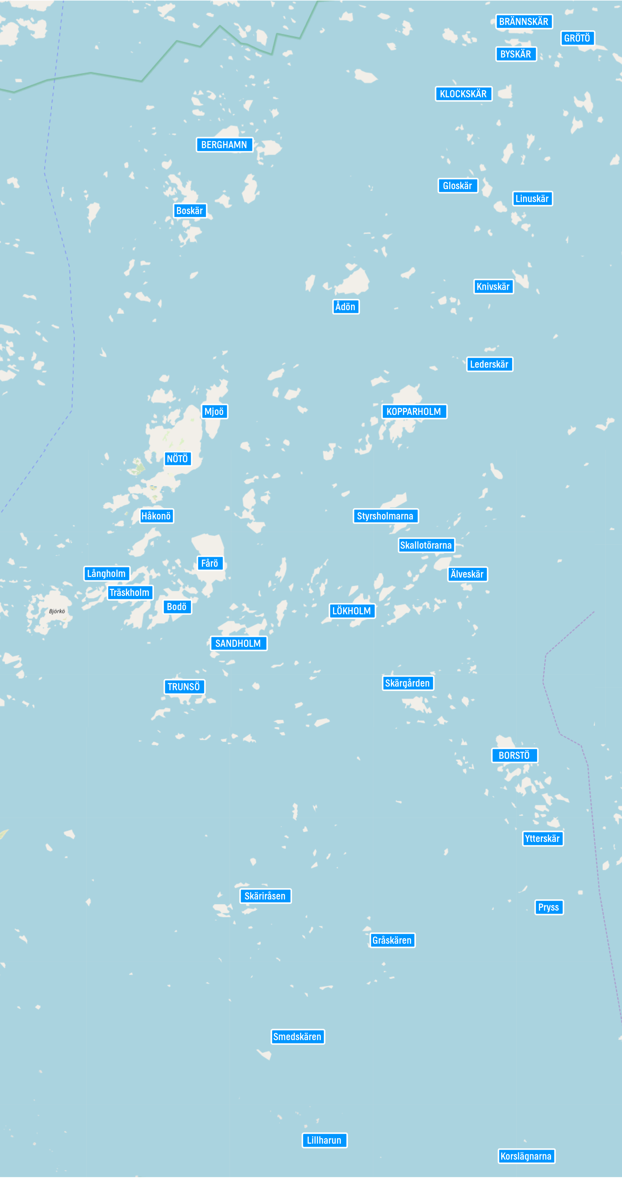 Map made from Open Street Map, adding names of key islands